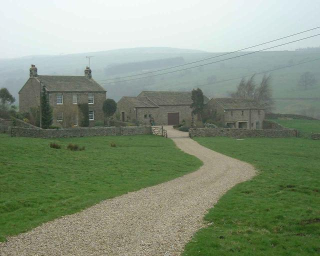 Stean Village, North Yorkshire. This small village is situated in the Dales near How Stean Beck.